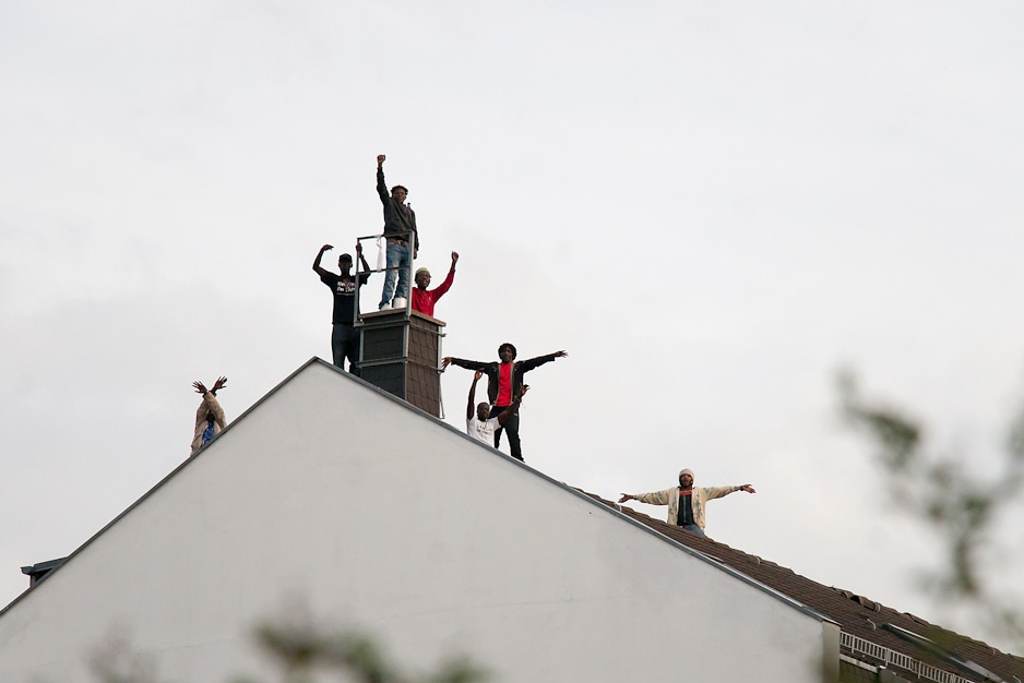 Refugees on hostel roof in Berlin-Friedrichshain